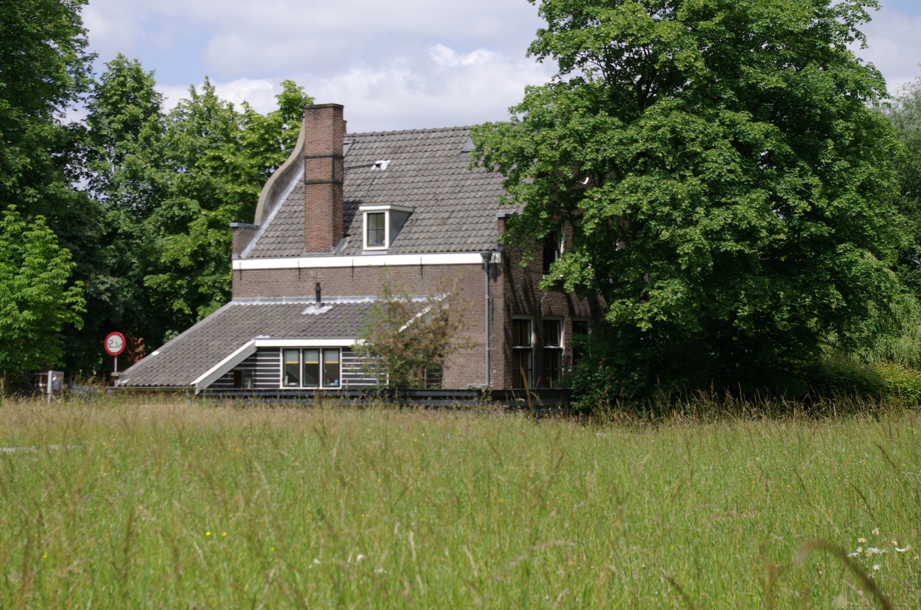 Beth Haim of Ouderkerk aan de Amstel